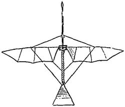 Victor Tatin's 1876 model ornithopter "Oiseau mécanique"("Mechanical bird").